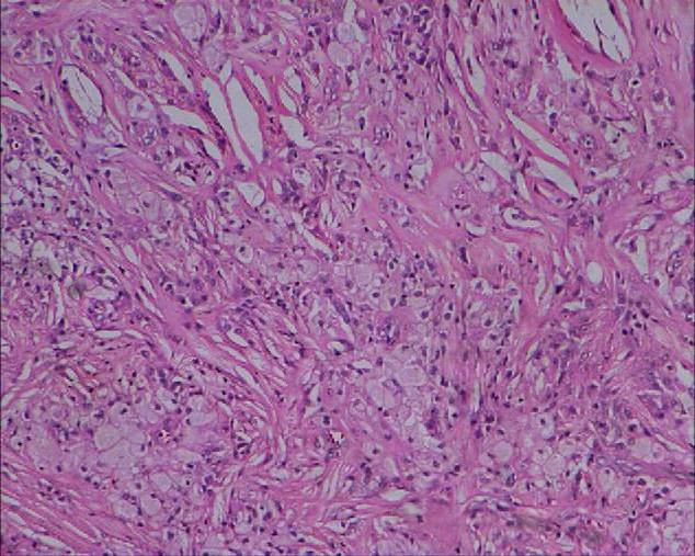 Histology of Xanthoma. Histology picture of xanthoma showing lipid laden foam cells with large areas of cholesterol clefts, 10 × magnification, eosin and hematoxilin stain. Kumar et al. Cases Journal 2008 1:71